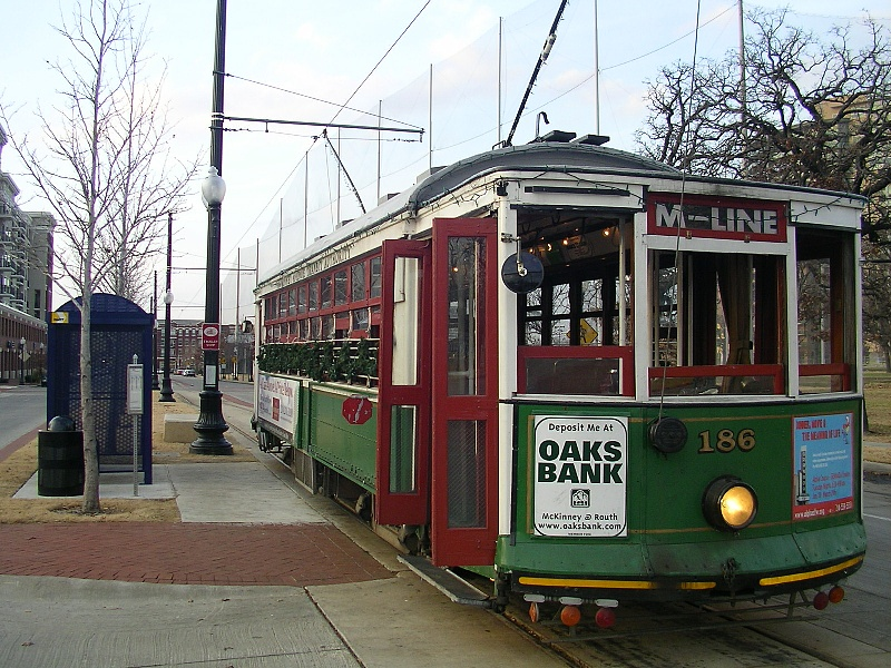 M-Line, McKinney Avenue Transit Authority, Dallas